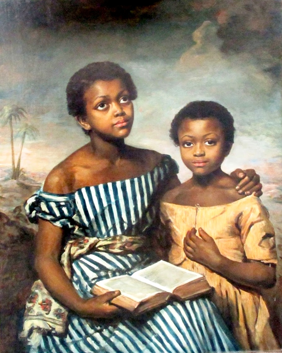 Painting by the British artist Emma Soyer (née Emma Jones) painted for the abolitionist cause in nineteenth-century Britain.